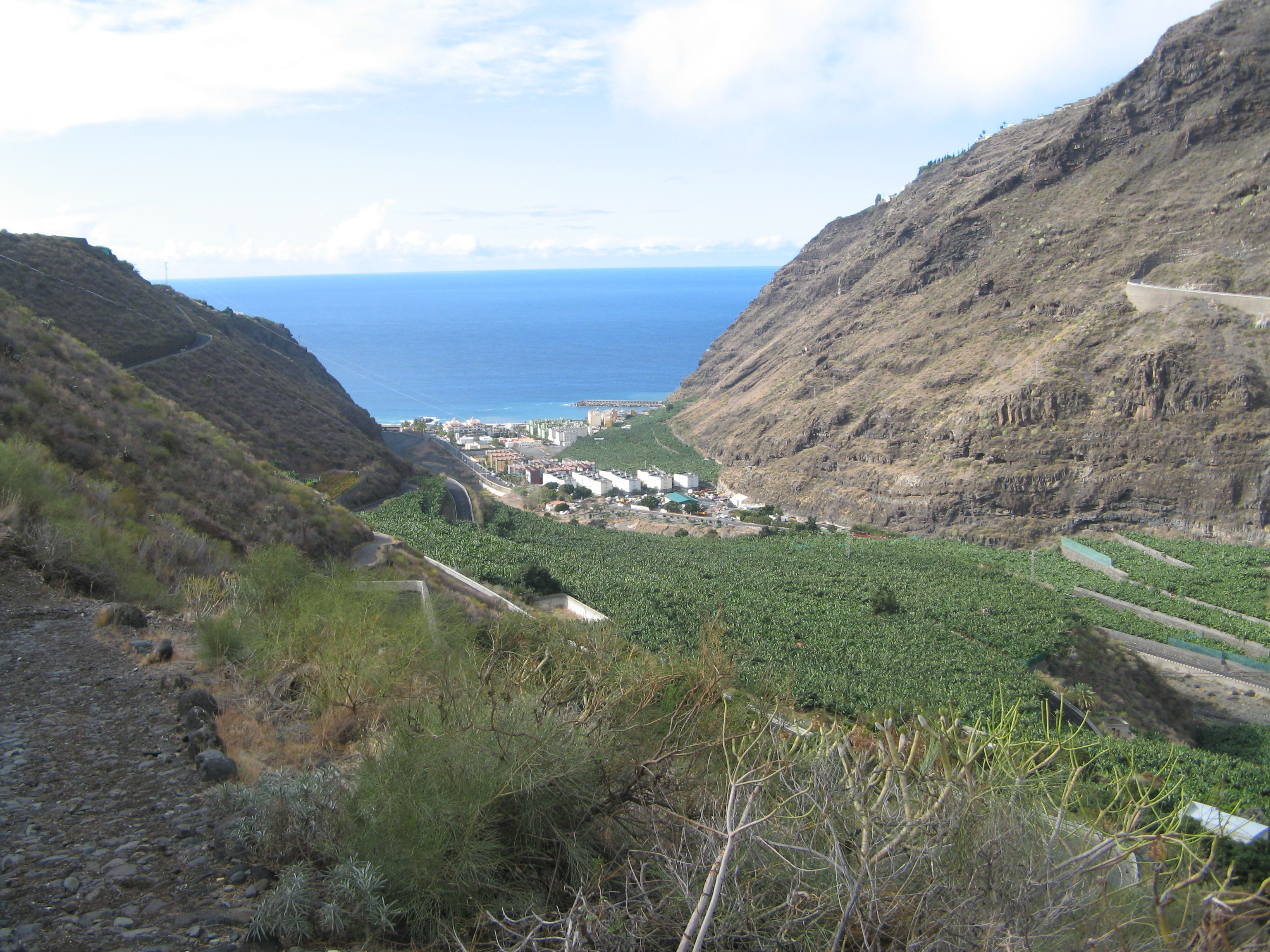 Barranco de Las Angustias way to Puerto de Tazacorte